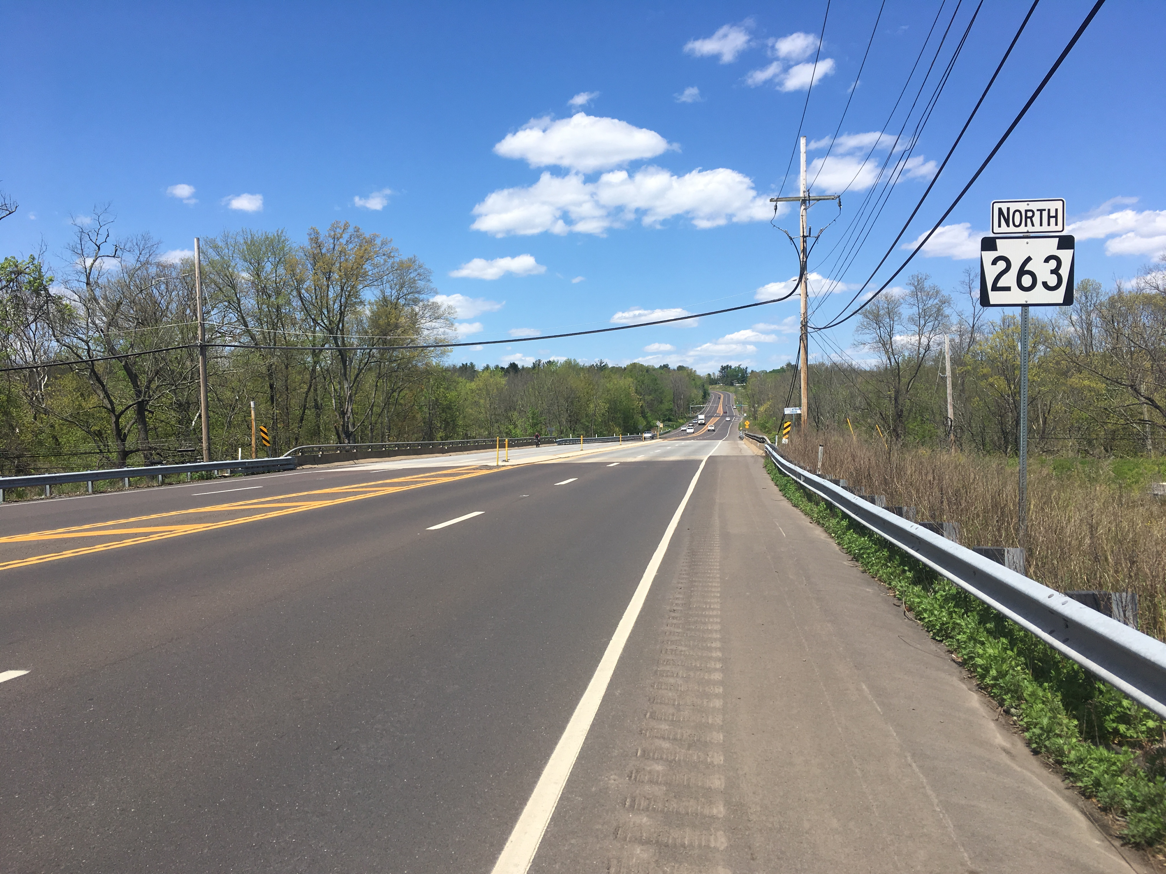 Northbound Pennsylvania Route 263 (York Road) past the intersection with Tulip Road in Warwick Township, Pennsylvania